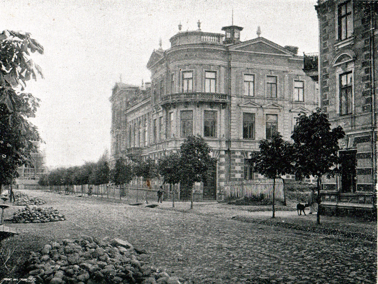 Court of justice in Radom, 1899